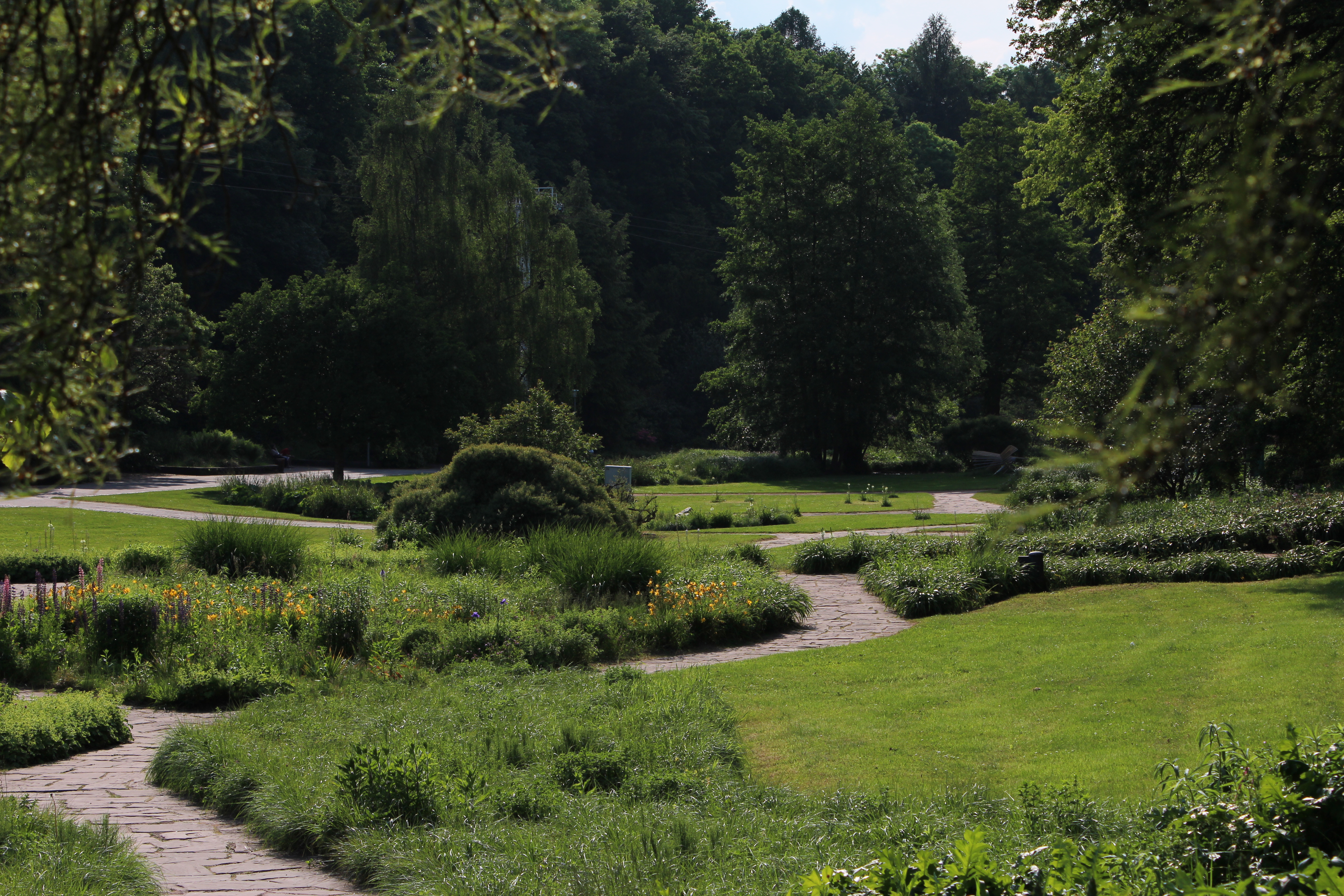 A picture of the Deutsch-Französischer Garten.